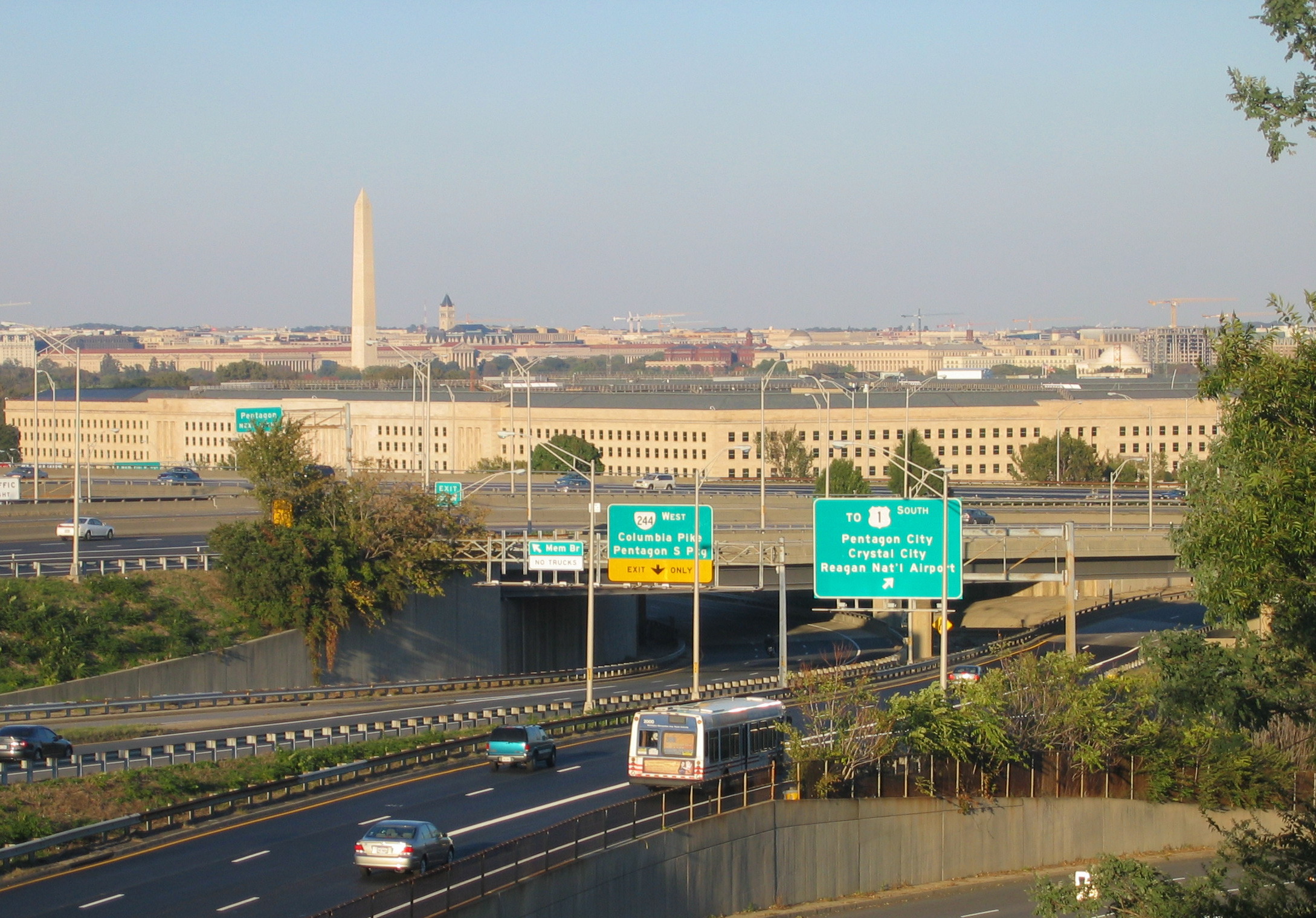 The Pentagon and Washington, D.C. skyline, as viewed from S. Arlington Ridge Road.